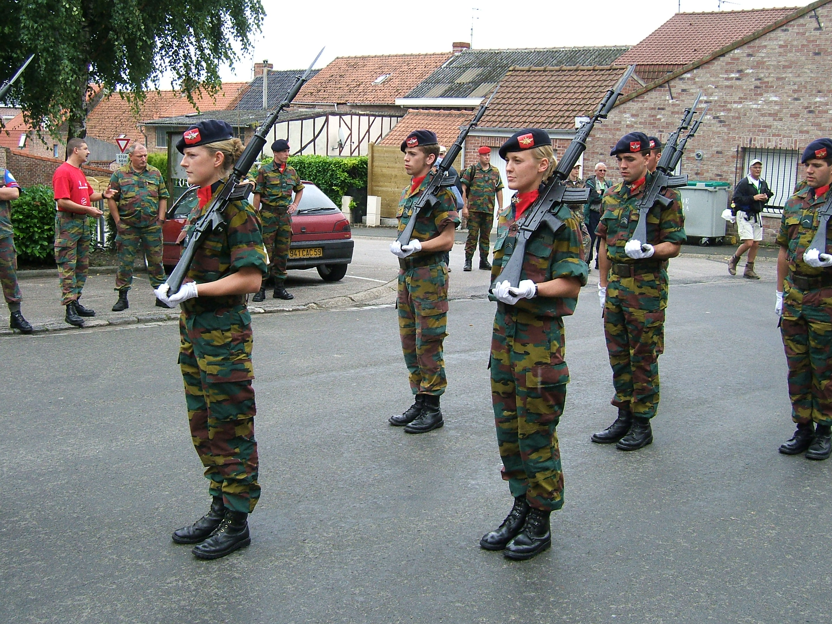 The drill platoon of 14th Air defence artillery regiment of Belgian Army